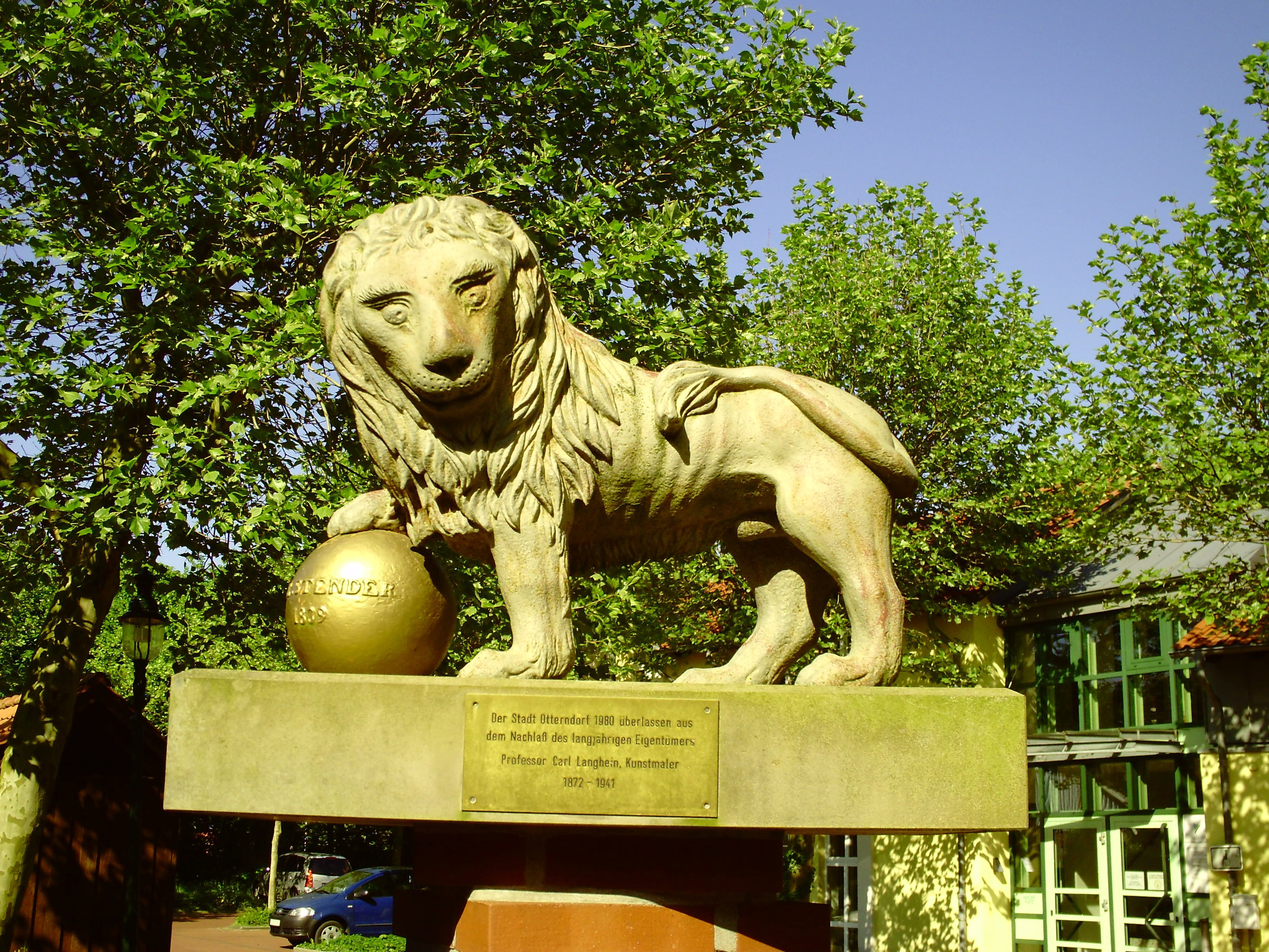 Sculpture of a lion in the patio of the Hadler Huas in Otterndorf, Lower Sxony